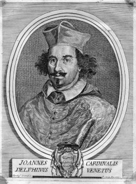 Cardinal Giovanni Delfino (1617-1699)